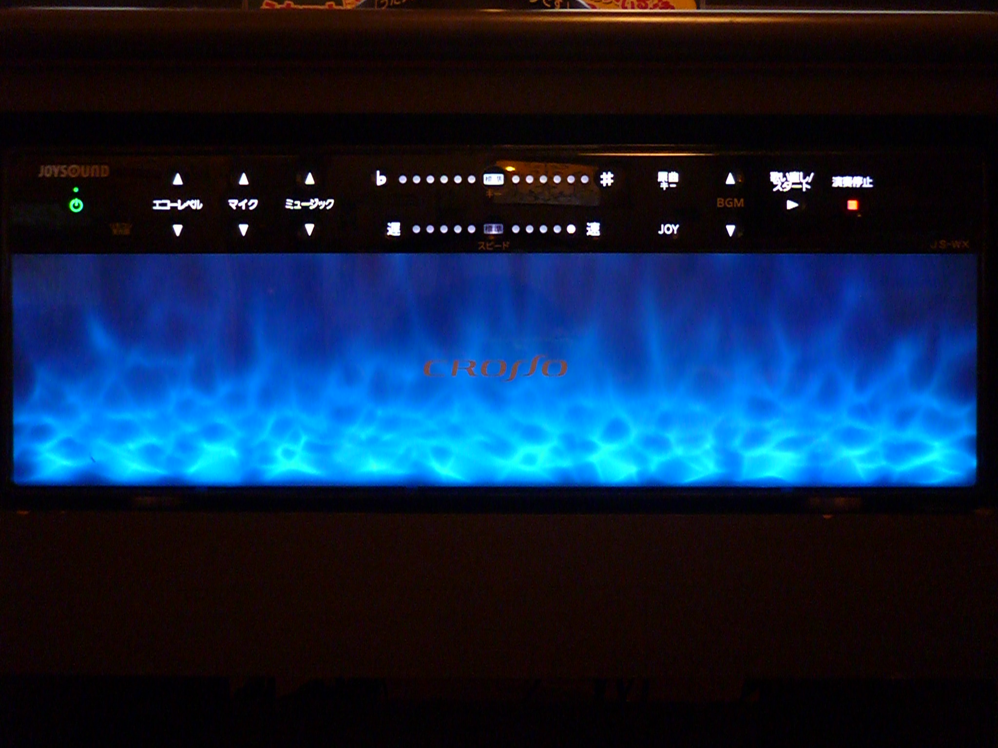 Karaoke System - CROSSO (XING)